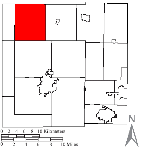 Made by the US Census and modified by myself